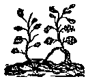 Illustration for Rambam commentary on Mishnayot Kilayim